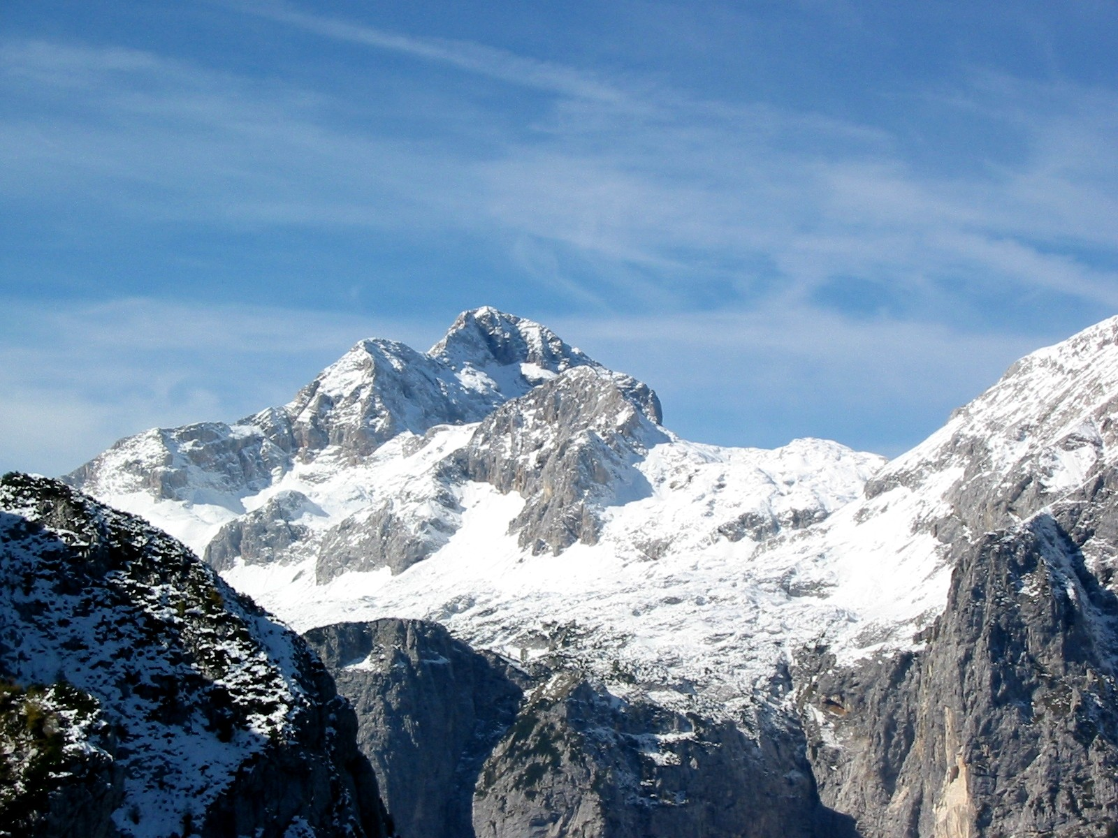 Triglav, the higest mountain in Slovenia. View from the east (Mt. Debela Peč).